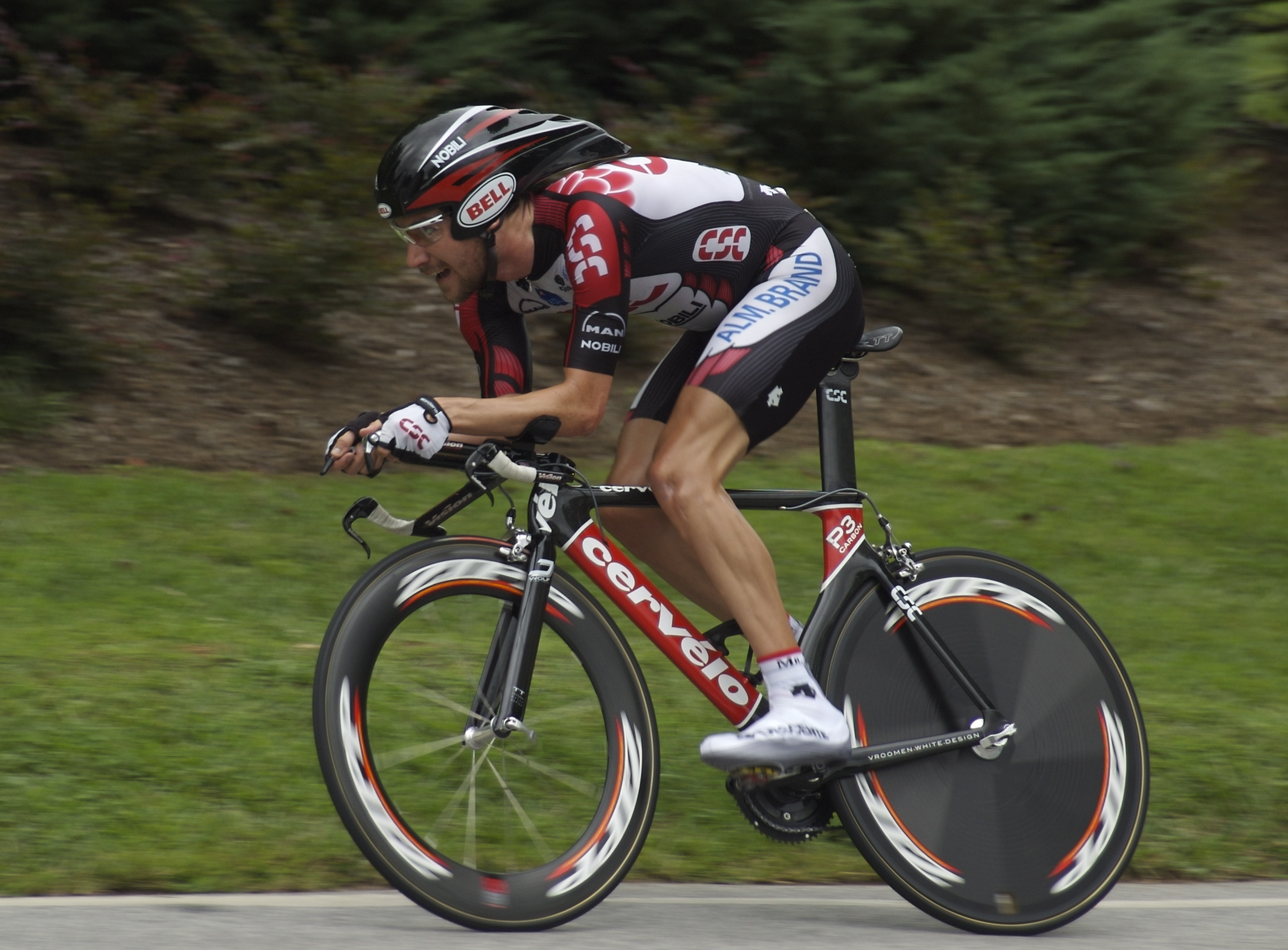 Dave Zabriskie attacking the final 3 kilometers of the USA Cycling Pro Individual Time Trial Championship in Greenville, SC. Zabriskie won the US title when defending champion Chris Baldwin fell on the course's last corner.